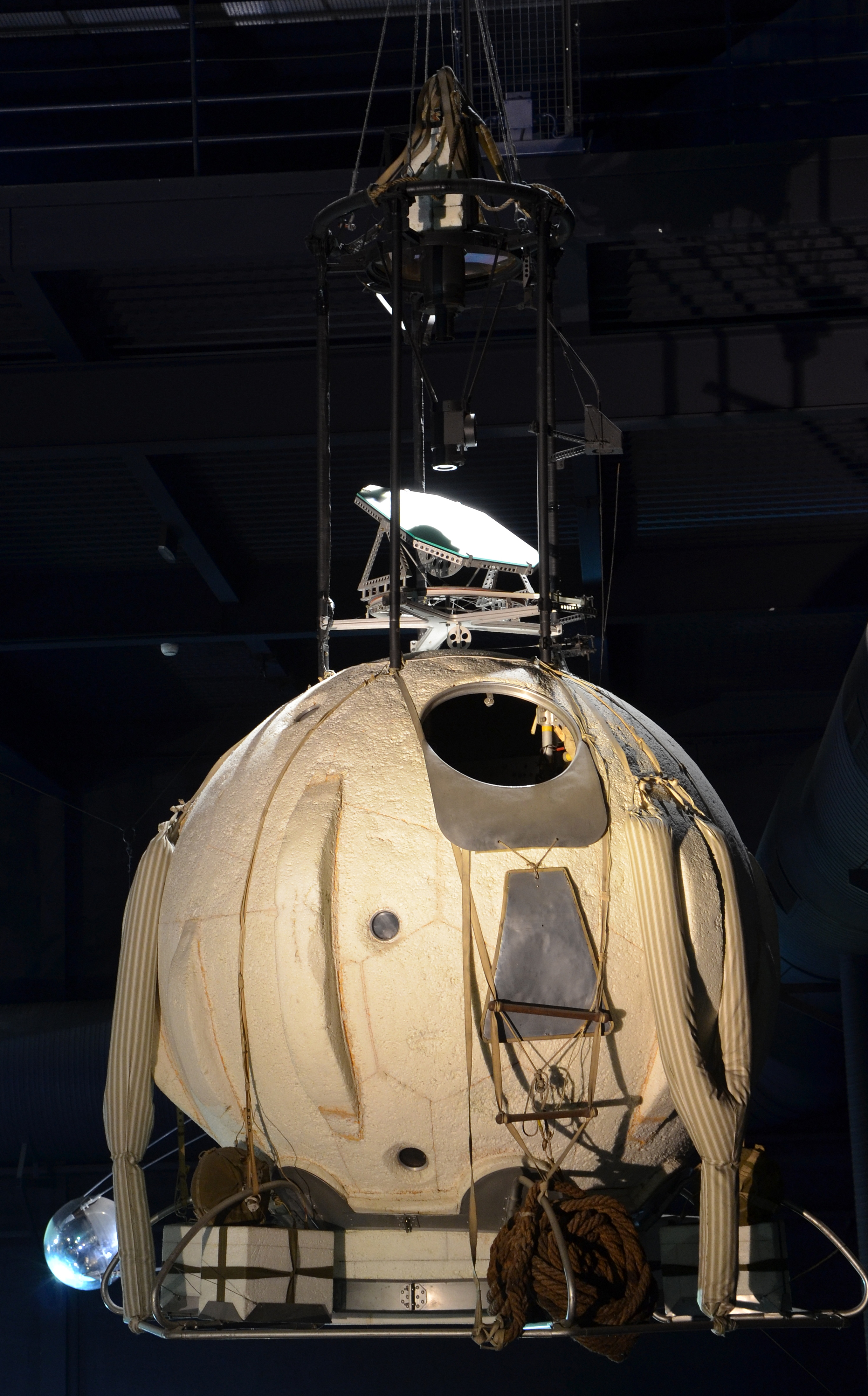 Pressurized gondola used by the french astronom Audouin Dollfus the 22 april 1959 to do astronomic observations at 14000 meters. Musée de l'Air, Le Bourget, France.